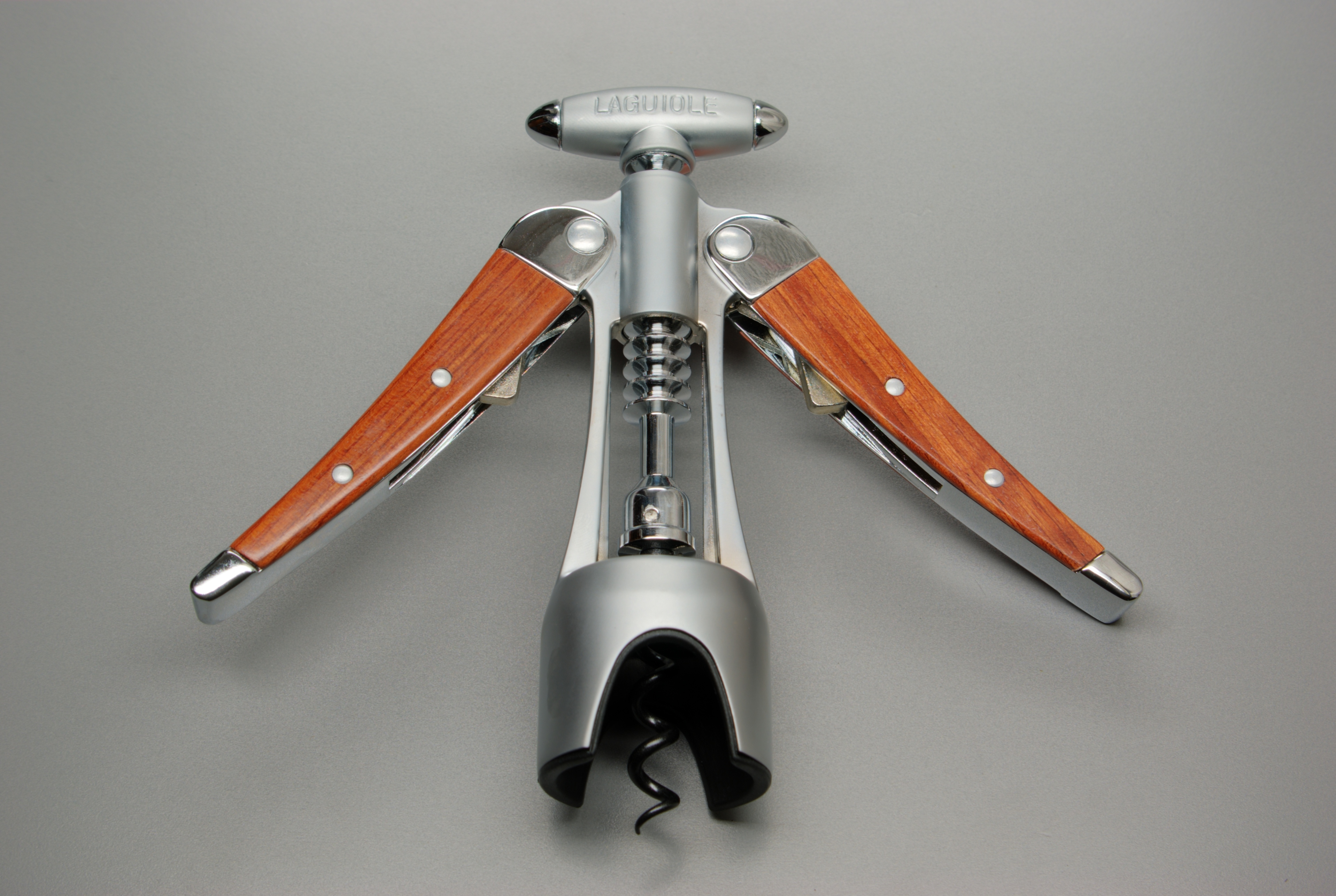 Wing corkscrew